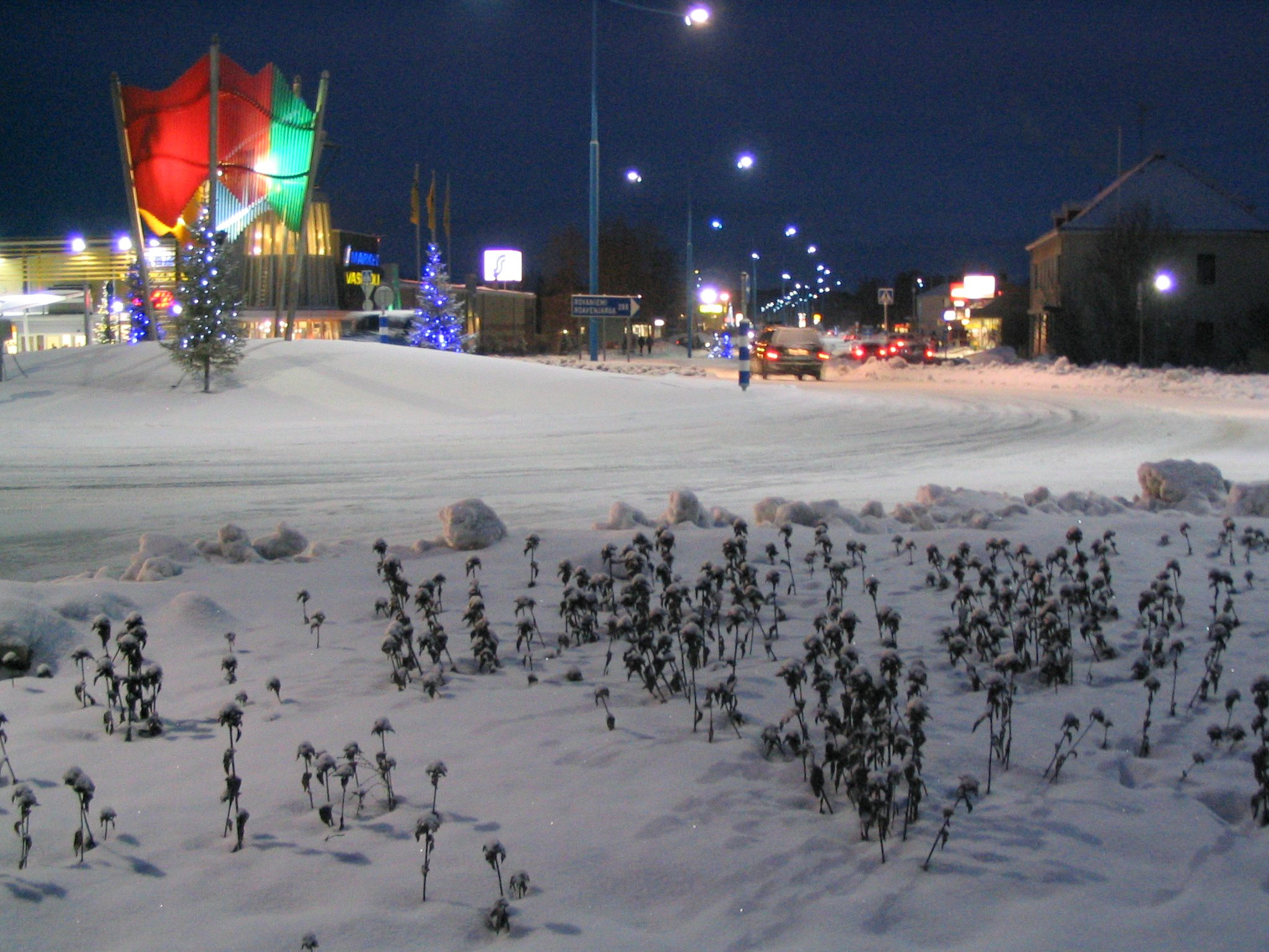 Roundabout of the highways 4 (E75) and 91 in the centre of the Ivalo, Inari, Finland.